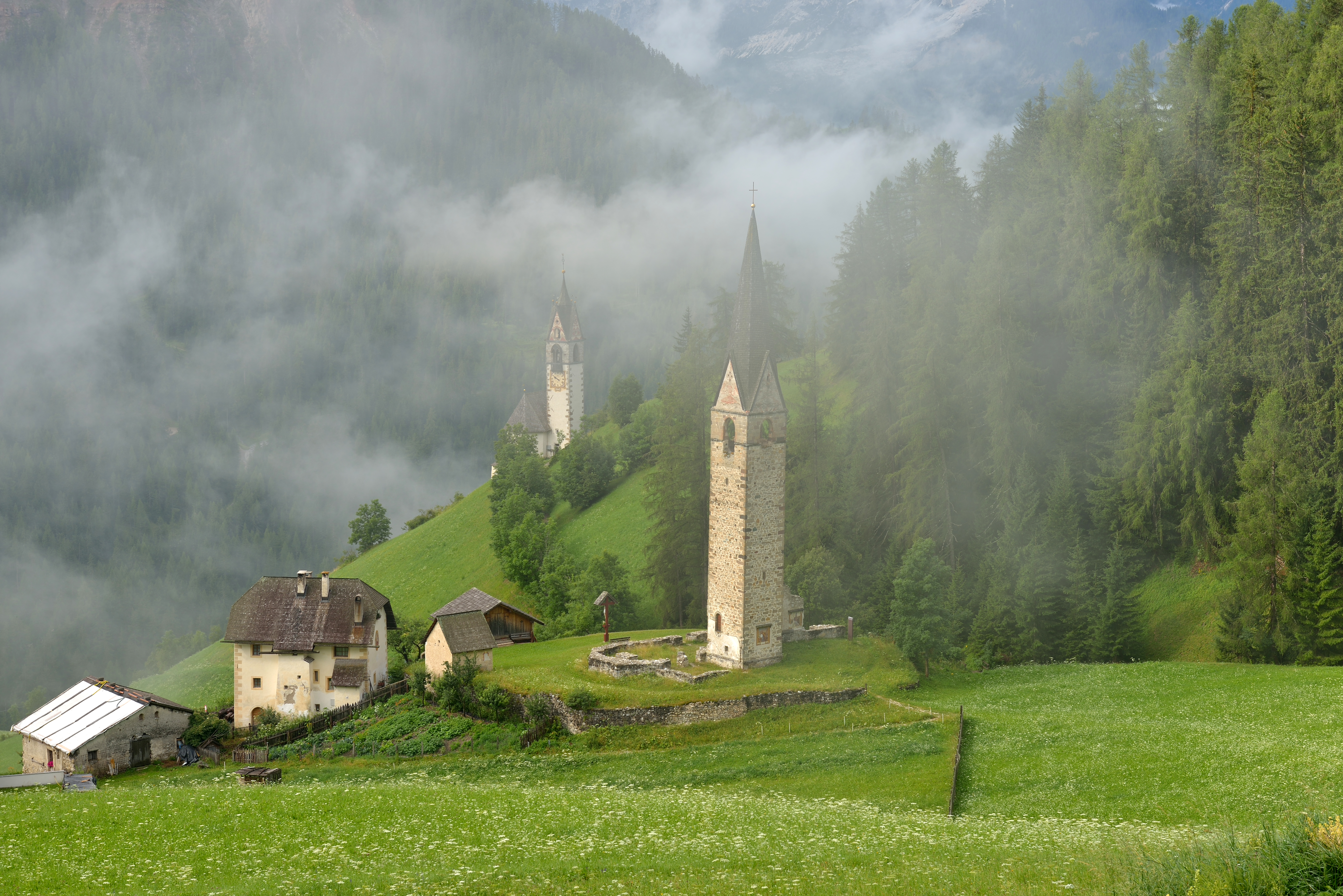 Old parish church in La Val - the old rectory on the left, the St. Barbara church in the background